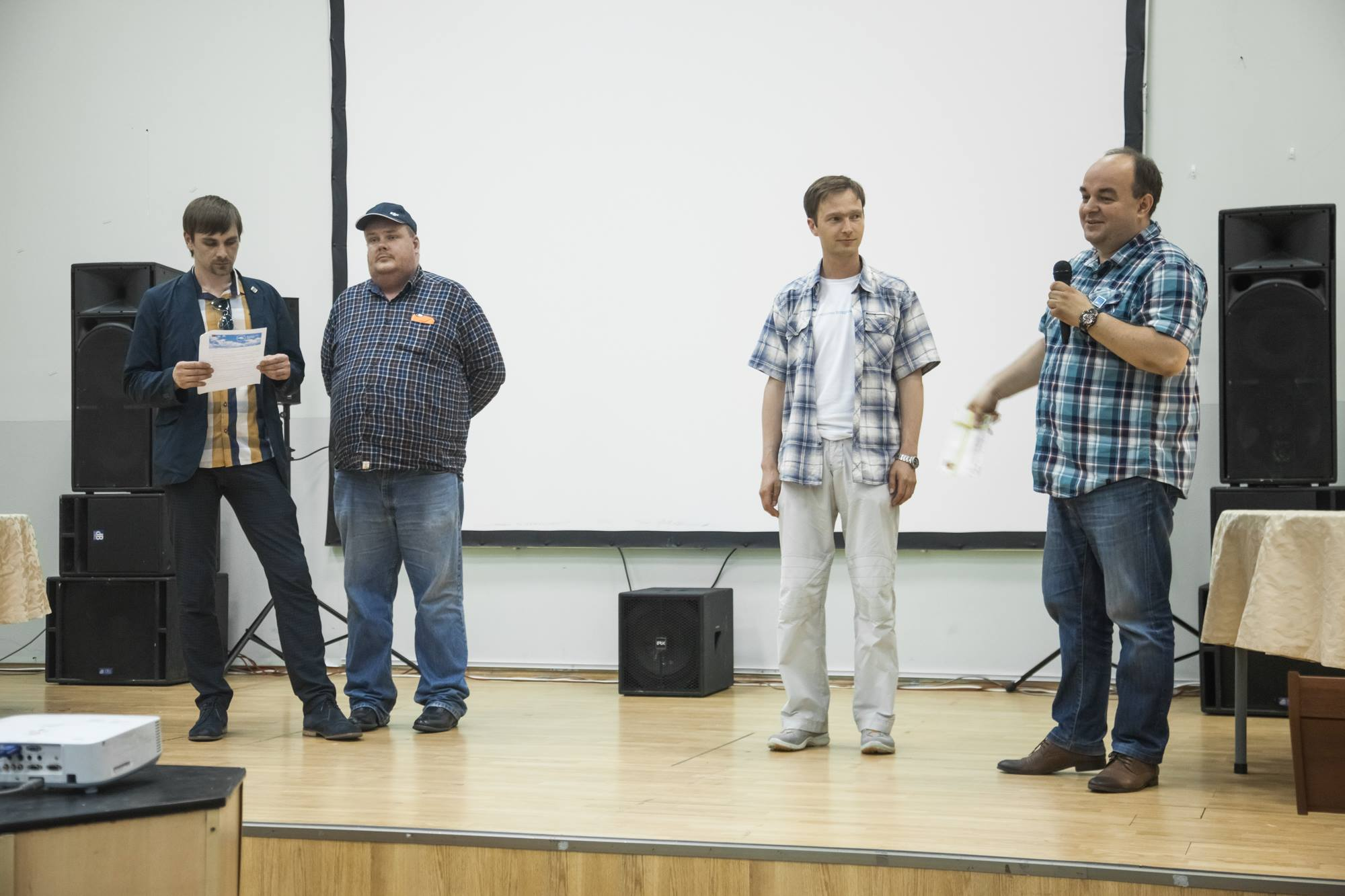 awarding ceremony FSC-2015